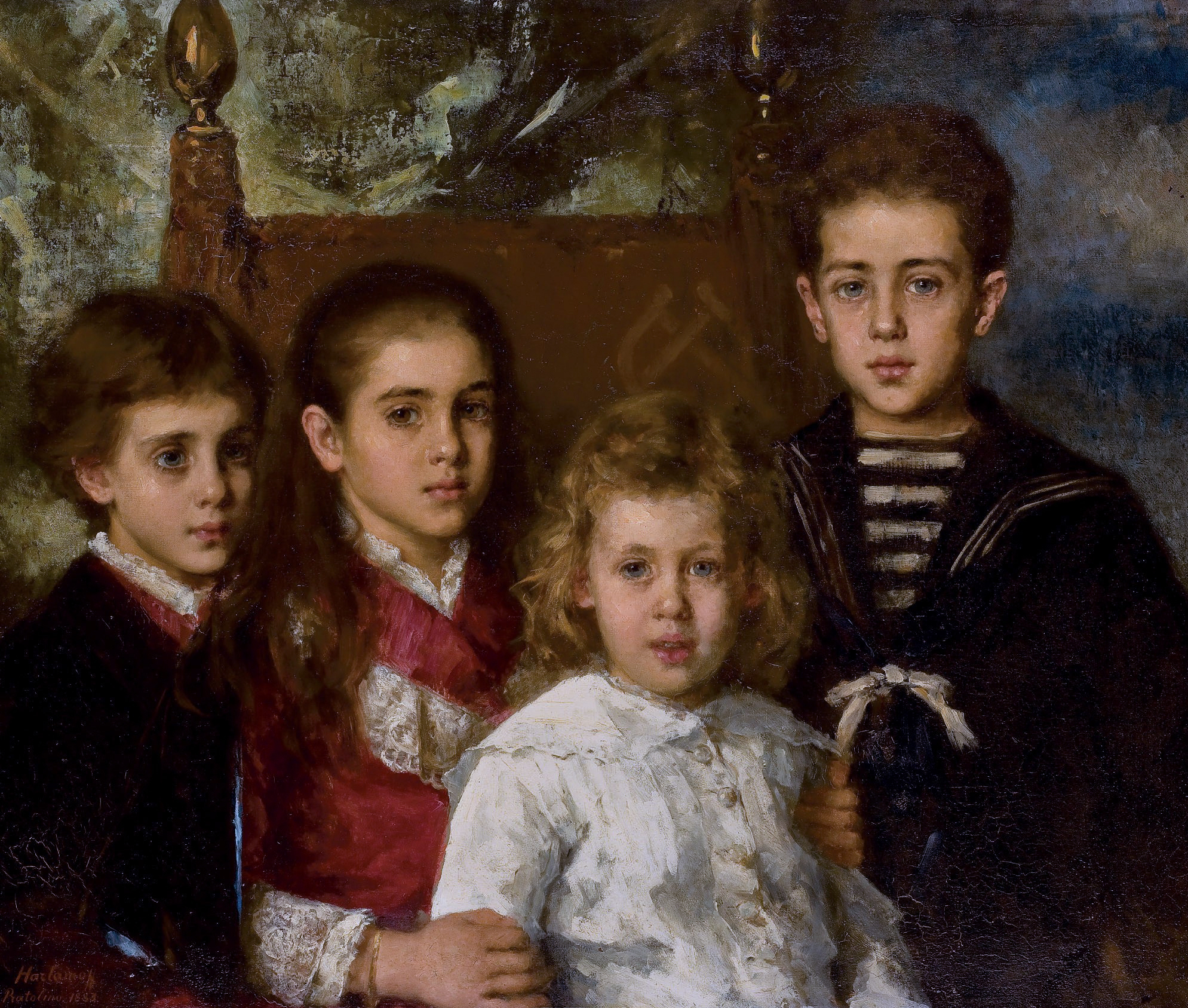 Portrait of four children from the second marriage of Paul Pavlovich Demidoff, 2nd Prince of San Donato (1839-1885), Avrora (1873-1904), Anatoli (1874-1943), Maria (1876-1955) and Pavel (1879-1909) signed, inscribed and dated 'Harlamoff/Pratolino. 1883.' (lower left) oil on canvas 76.5 x 90 cm.